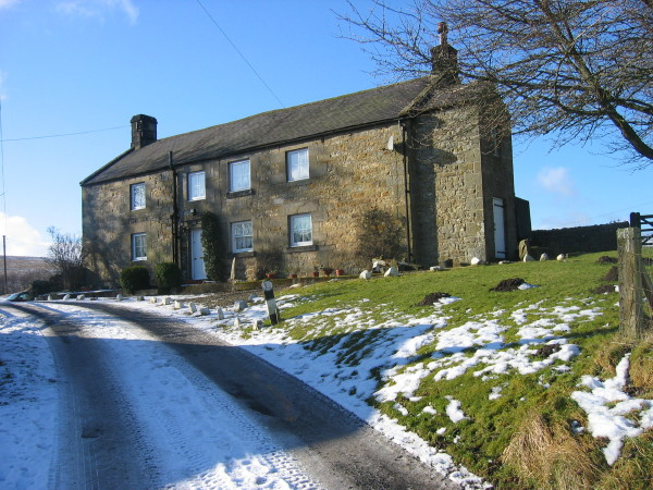 Dally Castle House A late 18th century farmhouse. The right-hand part of the house was originally the stable and granary, and was converted in the 1940s.